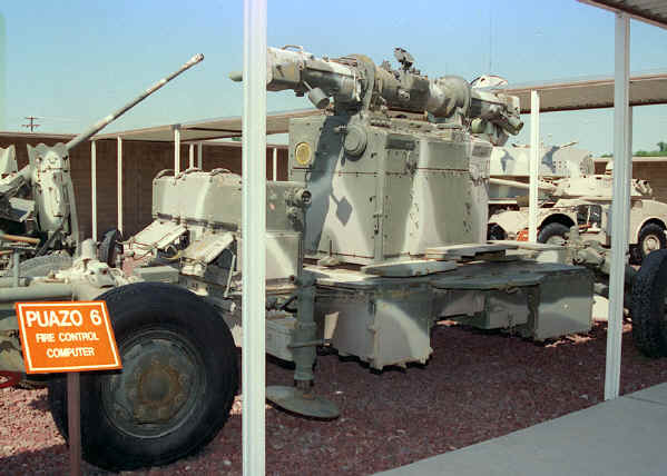 PUAZO-6 - Soviet anti-air cannons (S-60) calculator with optical system of target observation (long horizontal bar - stereoscopical range-finder). Used in 1950's & 1960's.